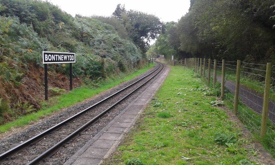 Bontnewydd railway station, near Caernarfon, Wales. Taken from the platform.